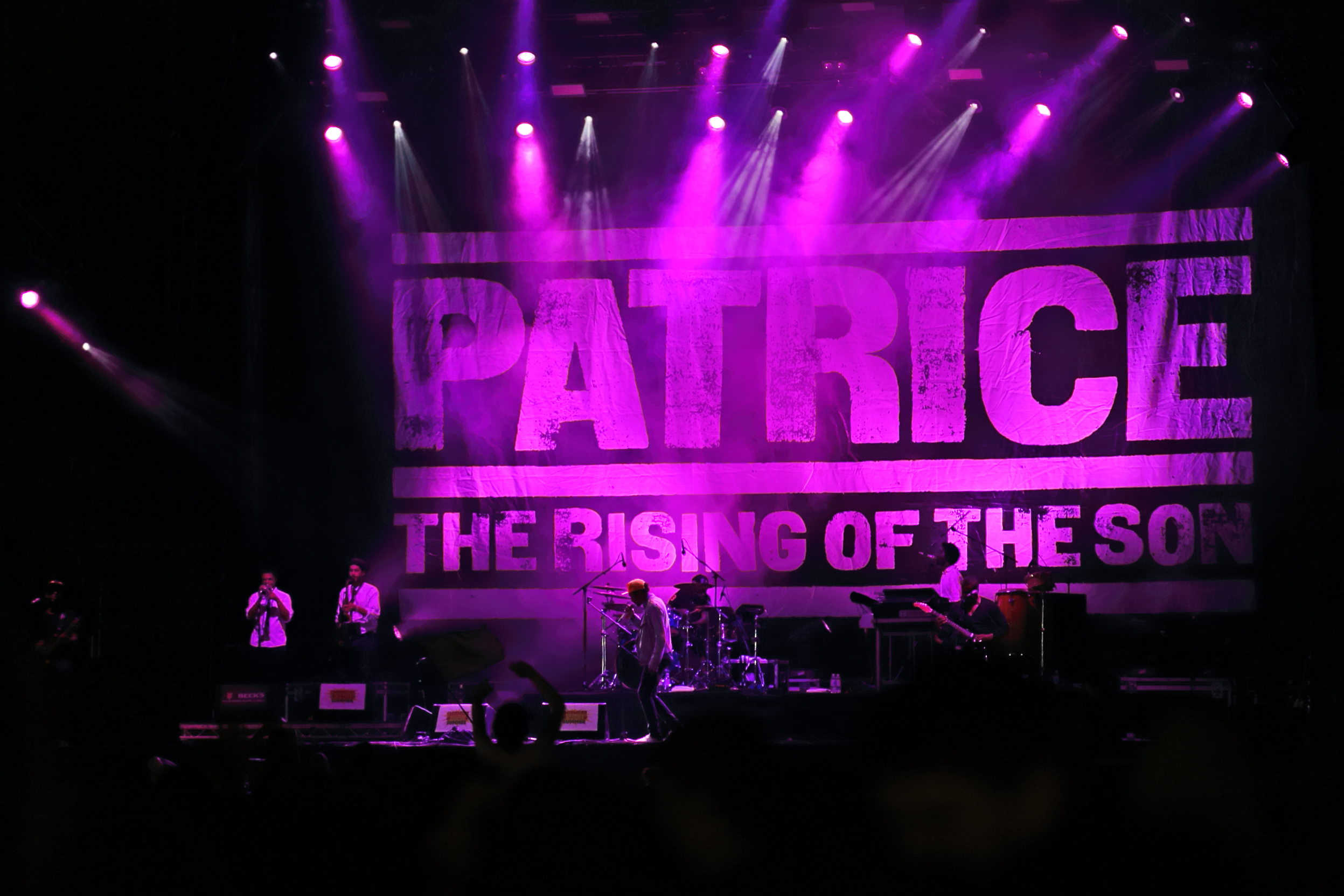 Patrice auf dem Chiemsee Reggae Summer 2013 Festivalsommer This photo was created with the support of donations to Wikimedia Österreich and Wikimedia Deutschland in the context of the CPB project "Festival Summer".